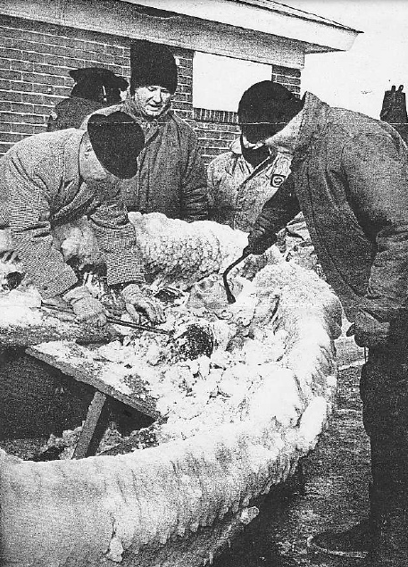 This is an original print of Gwendoline Steer's lifeboat on the morning of Dec 21, 1962 taken at Hobart Beach on Eaton's Neck, NY. Lifeboat washed ashore with body of 2nd Engineer Hugh Reid of Brooklyn, NY.